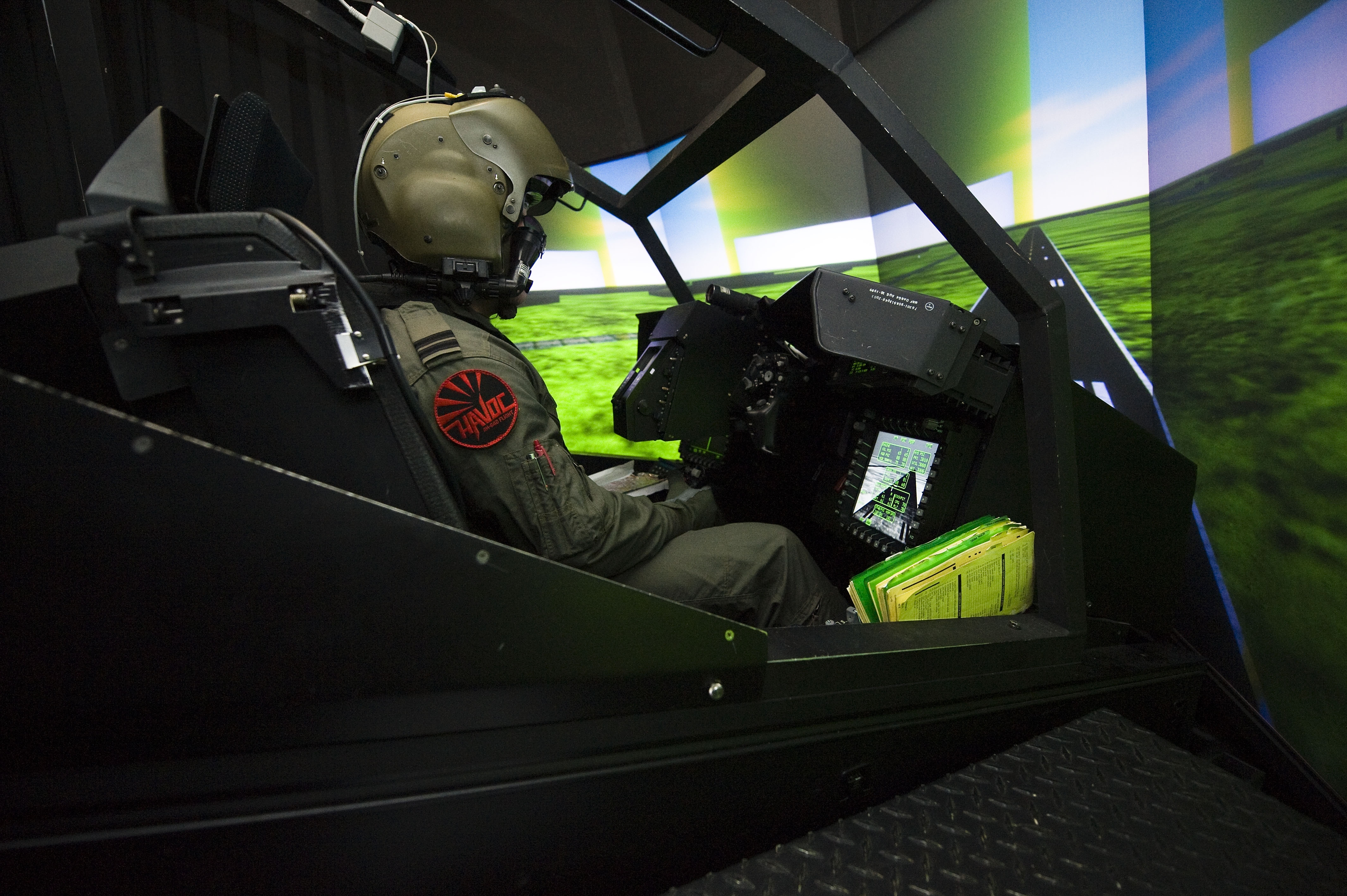 Gilze-Rijen, 29 maart 2010.Simulator training Apache.